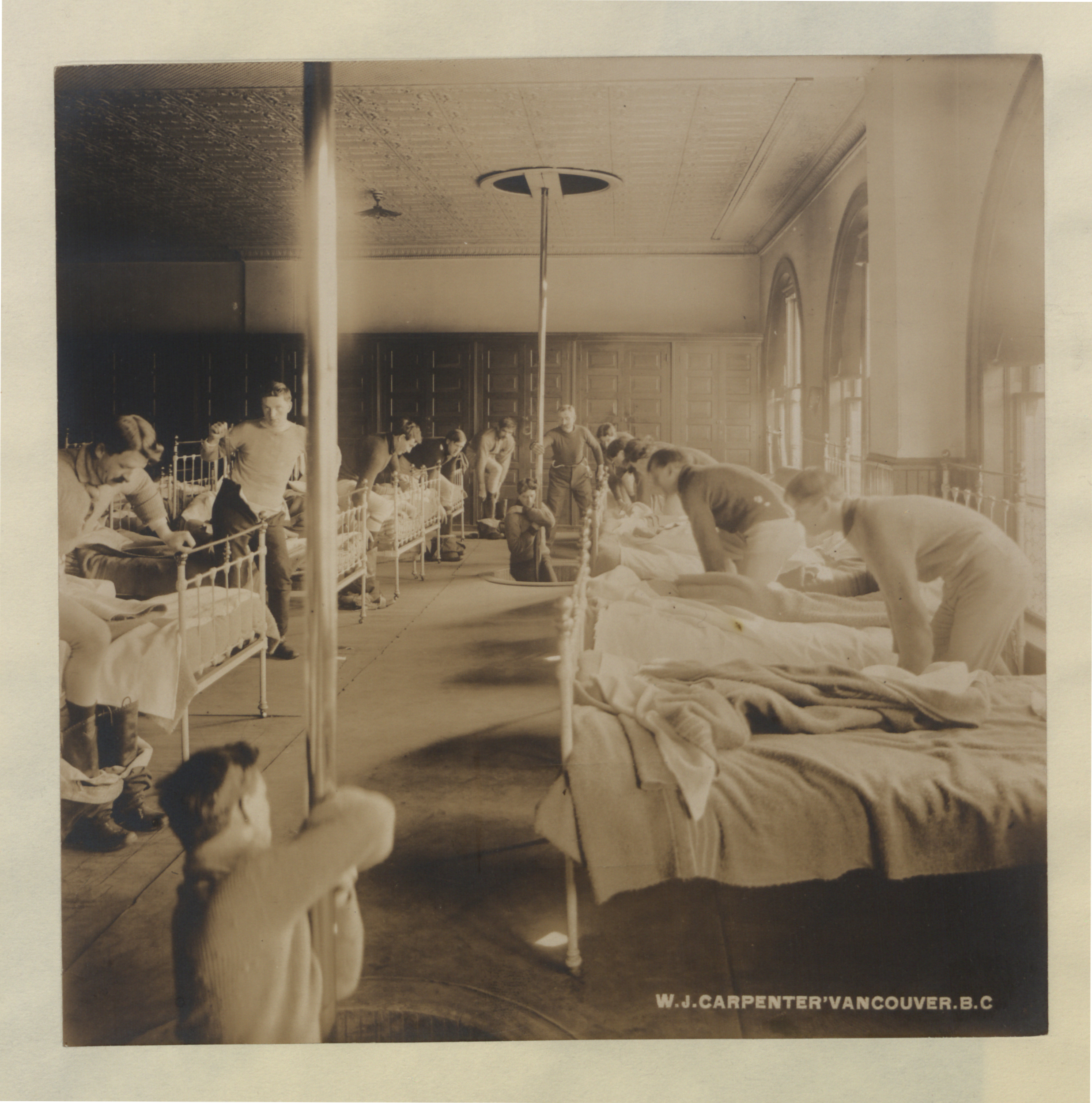 Vancouver firemen turning out for a fire alarm.